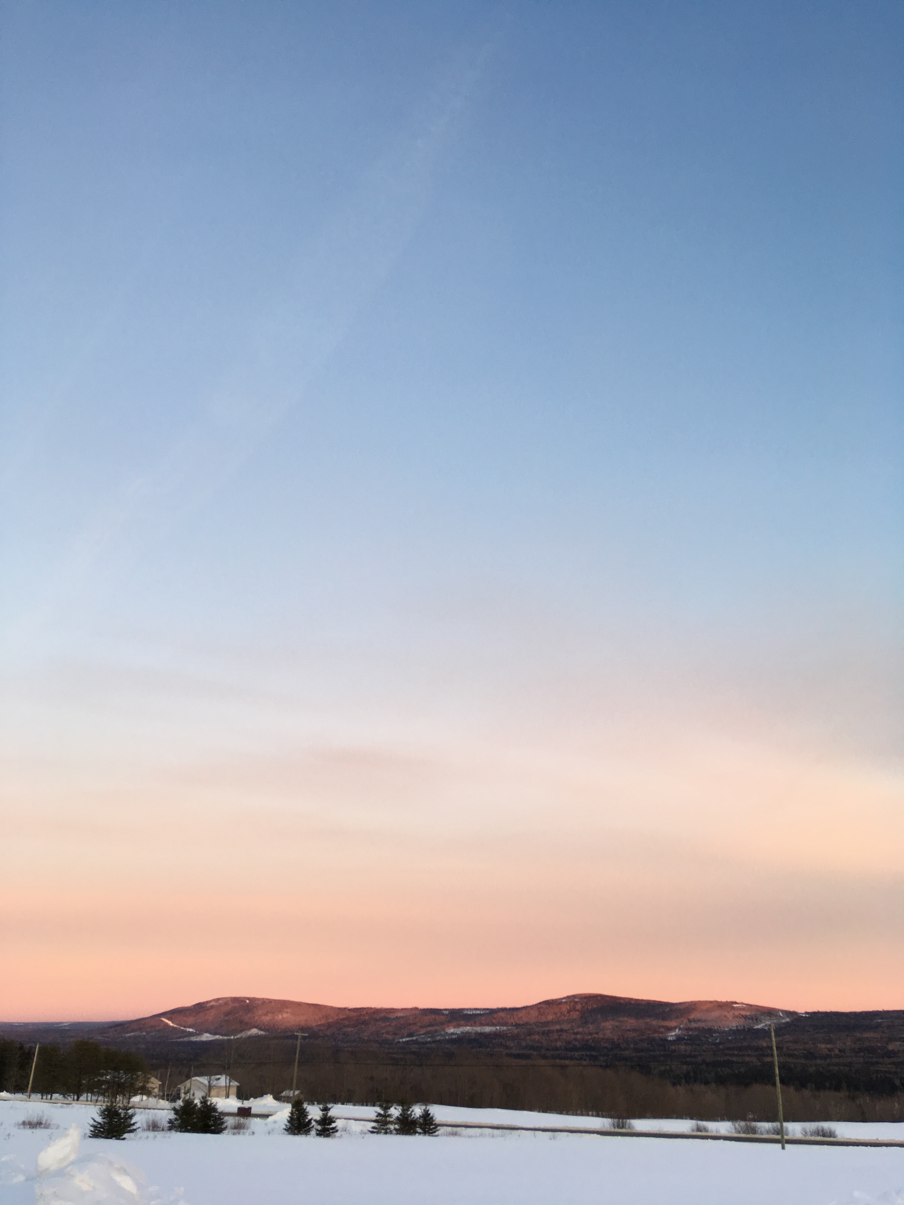 View from Maple Ridge, facing towards Caverhill